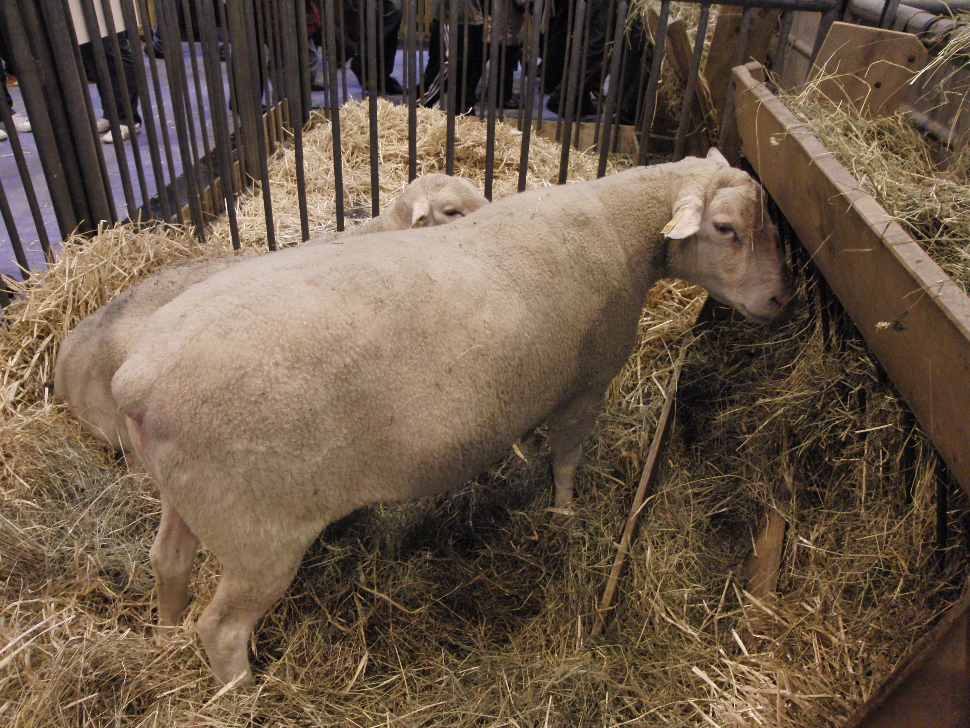 INRA 401 (Romane) sheep - Salon international de l'agriculture 2011, Paris, France